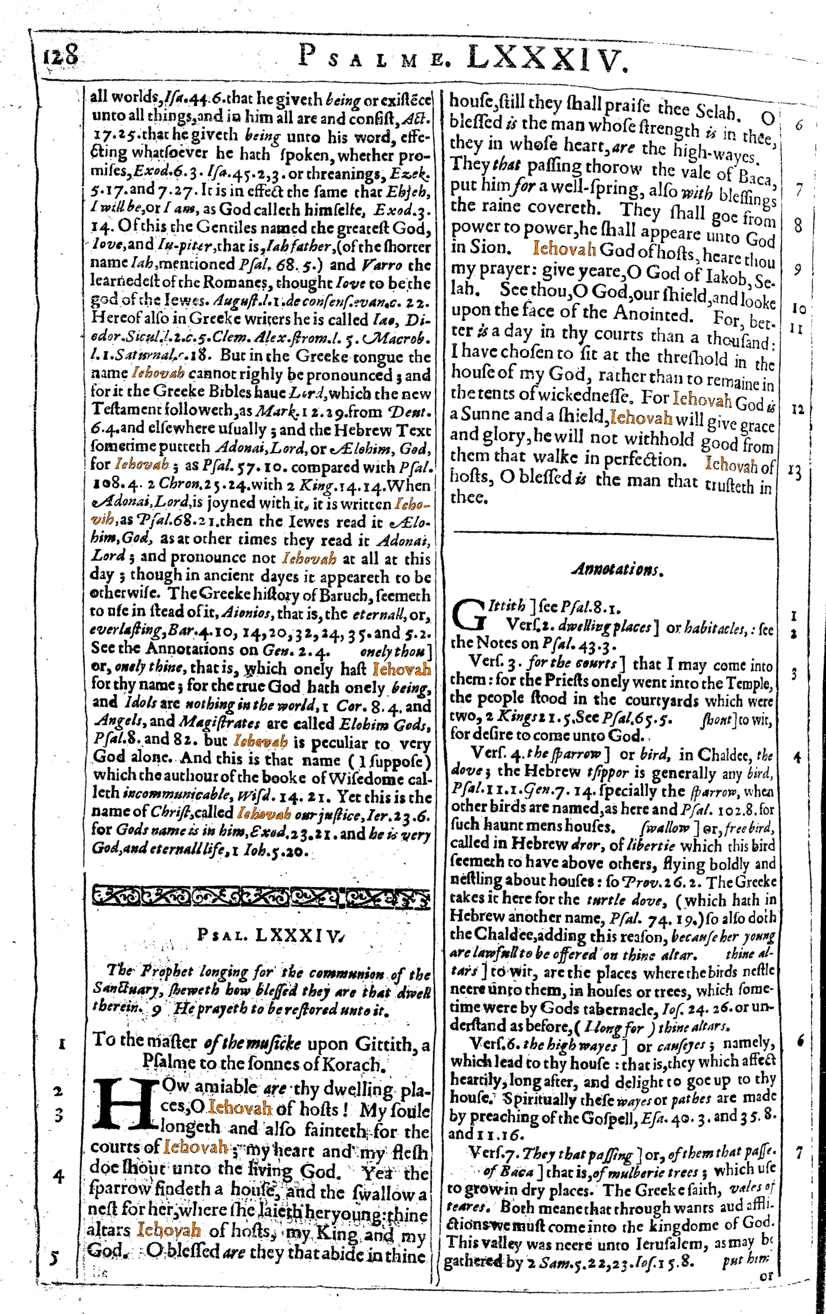 Excerpt from Henry Ainsworth's work named Annotations upon the five bookes of Moses, the booke of the Psalmes, and the Song of Songs, or, Canticles (p. 128, published at 1627), using and commenting on the divine name Iehovah ("Jehovah" in modern English).